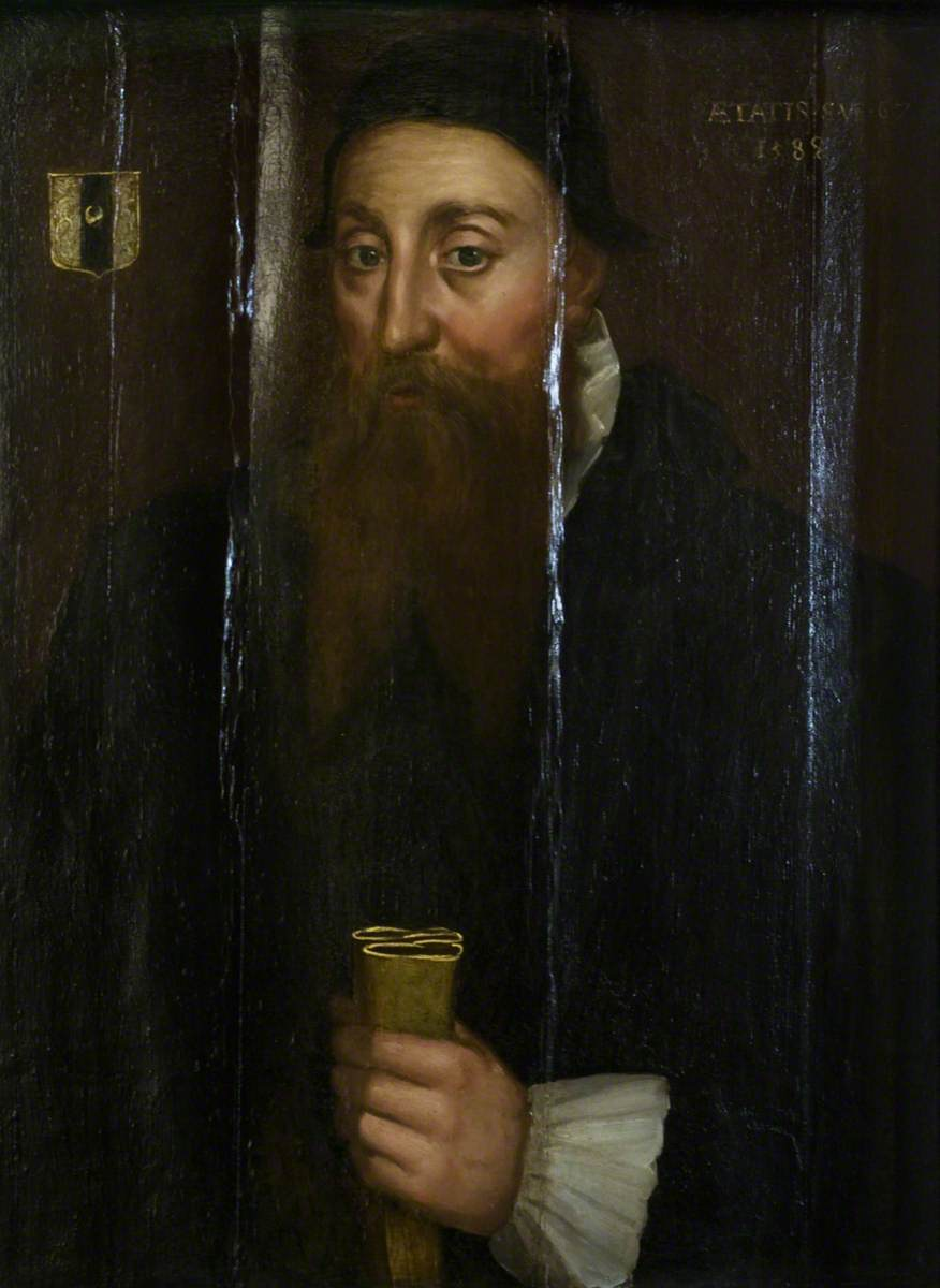 Alexander Erskine of Gogar (1521-1590), half-length, in black, holding a document inscribed 'Aetates Suae. 67/1588' and with a coat of arms, on panel.